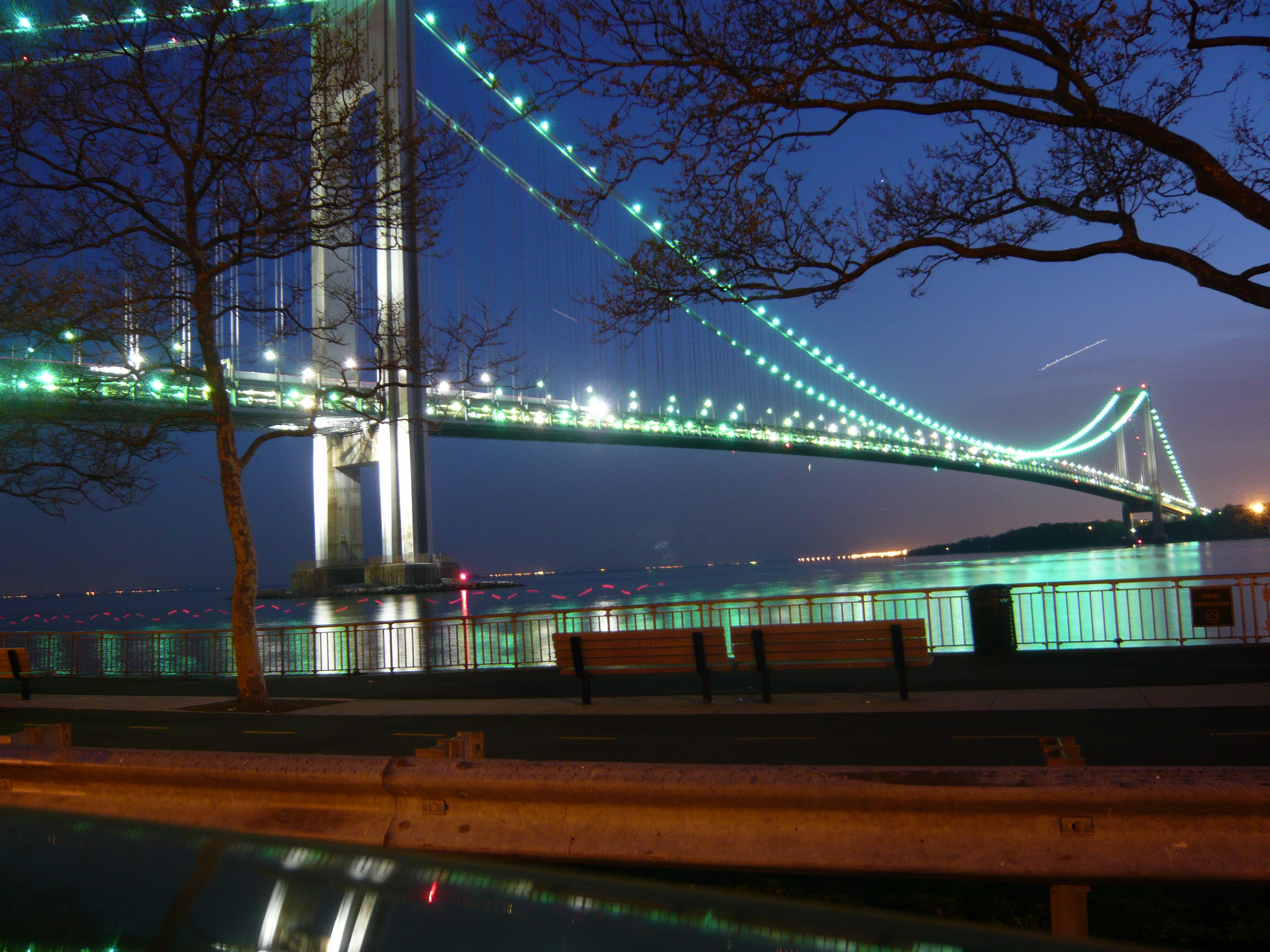 Verrazano Narrows Bridge, New York City